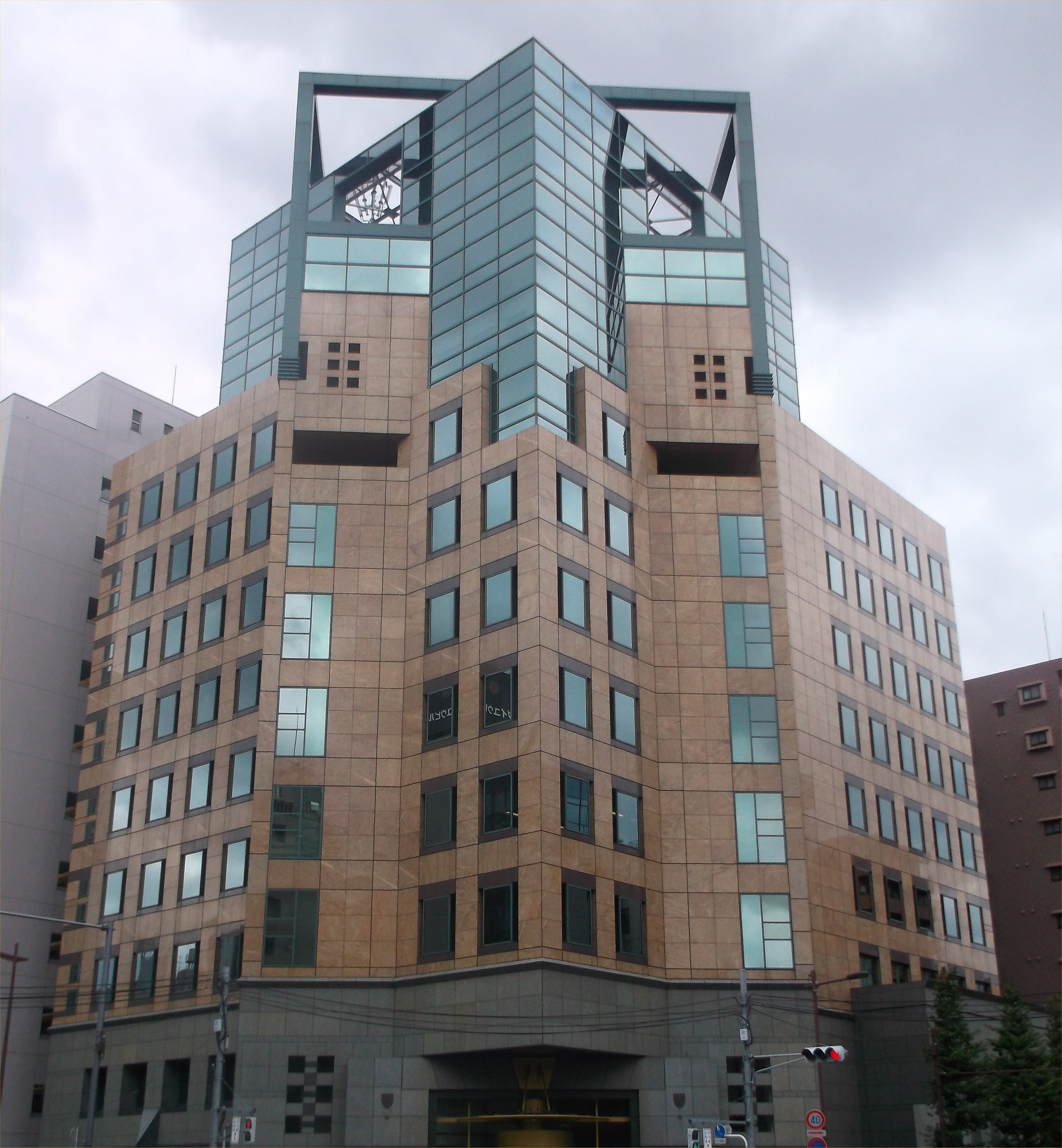 A photo of the head office"Ryukakusan"(a company that Manutacturing and sales of pharmaceuticals, medicine-related products and foods in Japan.)Higashikanda,Chiyoda-ku,Tokyo,Japan.